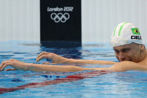 The swimmer Cesar Cielo, Brazil won a bronze medal. The country occupies the 21th place in the London Olympics with a gold medal, one silver and four bronze.